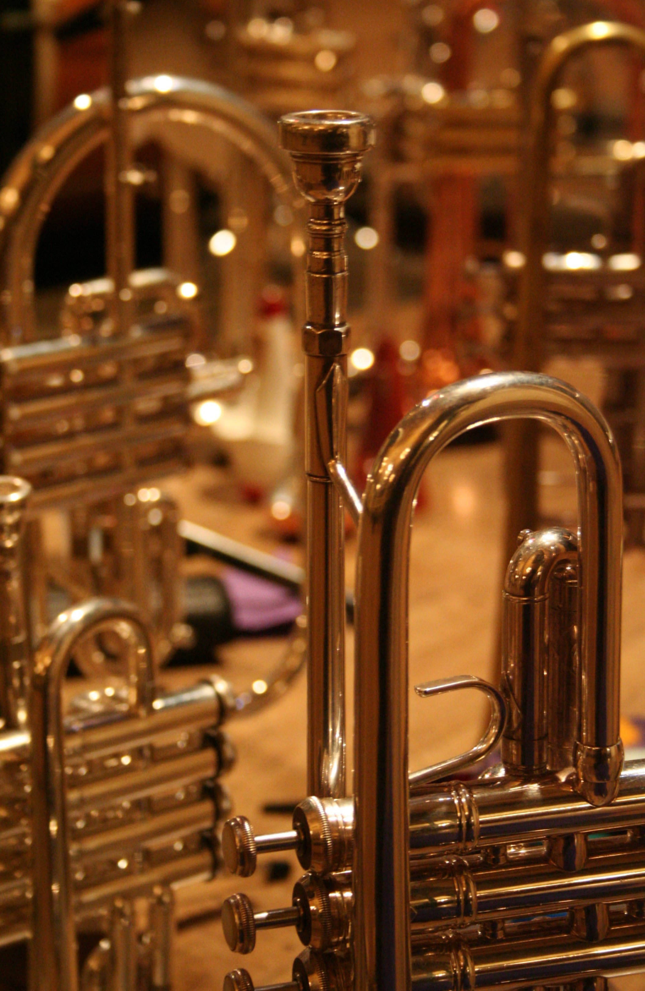 A trumpet, foreground, a piccolo trumpet behind, and a flugelhorn in background. Photographed by and copyright of (c) David Corby (User:Miskatonic, uploader) 2006